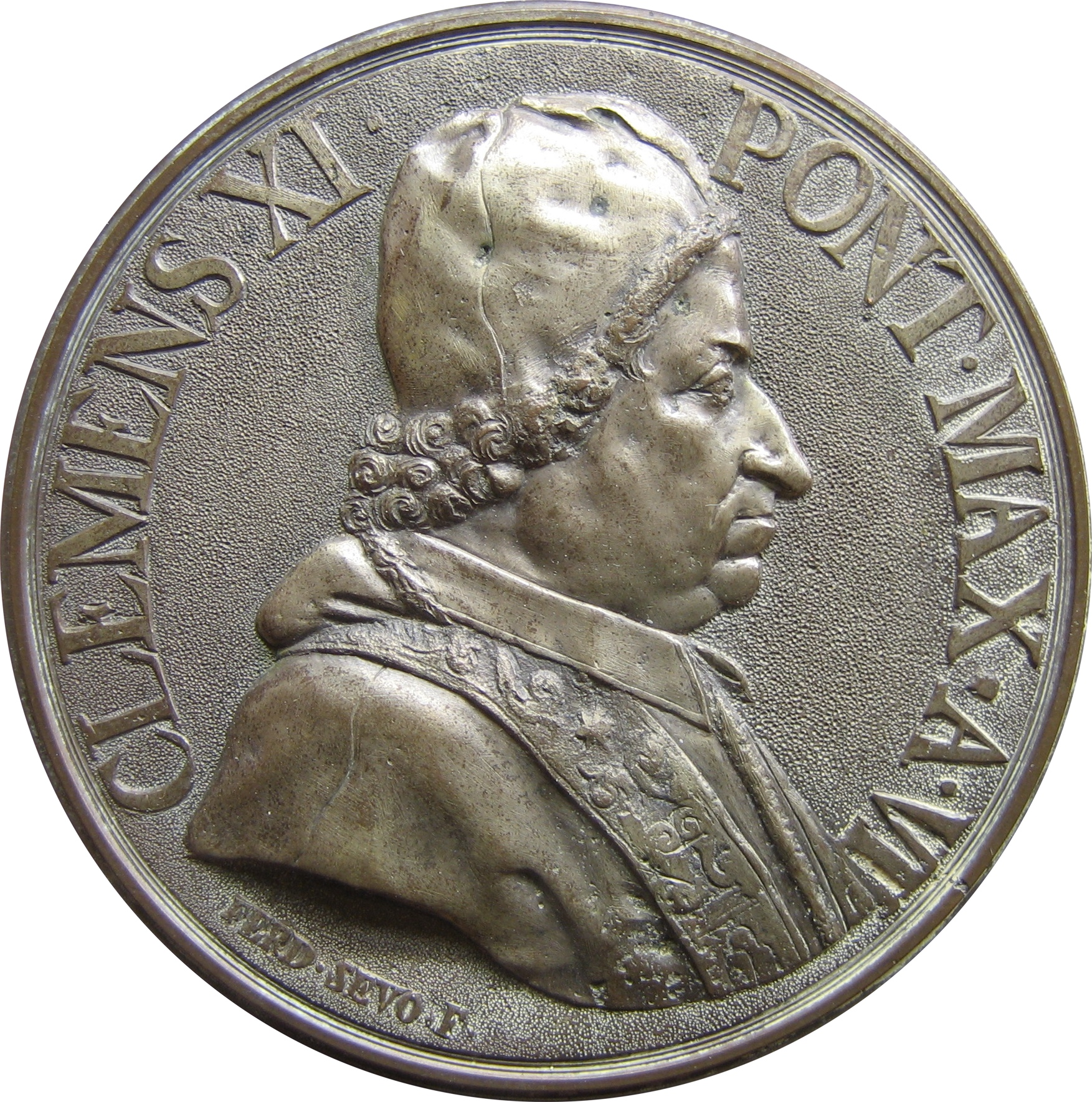 Pope Clement XI on an old coin.